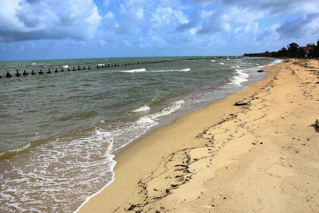 Some serious coastal erosion at Monkey River Village. The beach used to be all the way over to left of the photograph. Gravel mining upstream has depleted the sediment load of Monkey River. The result is less deposition in coastal areas such as this. Licensing